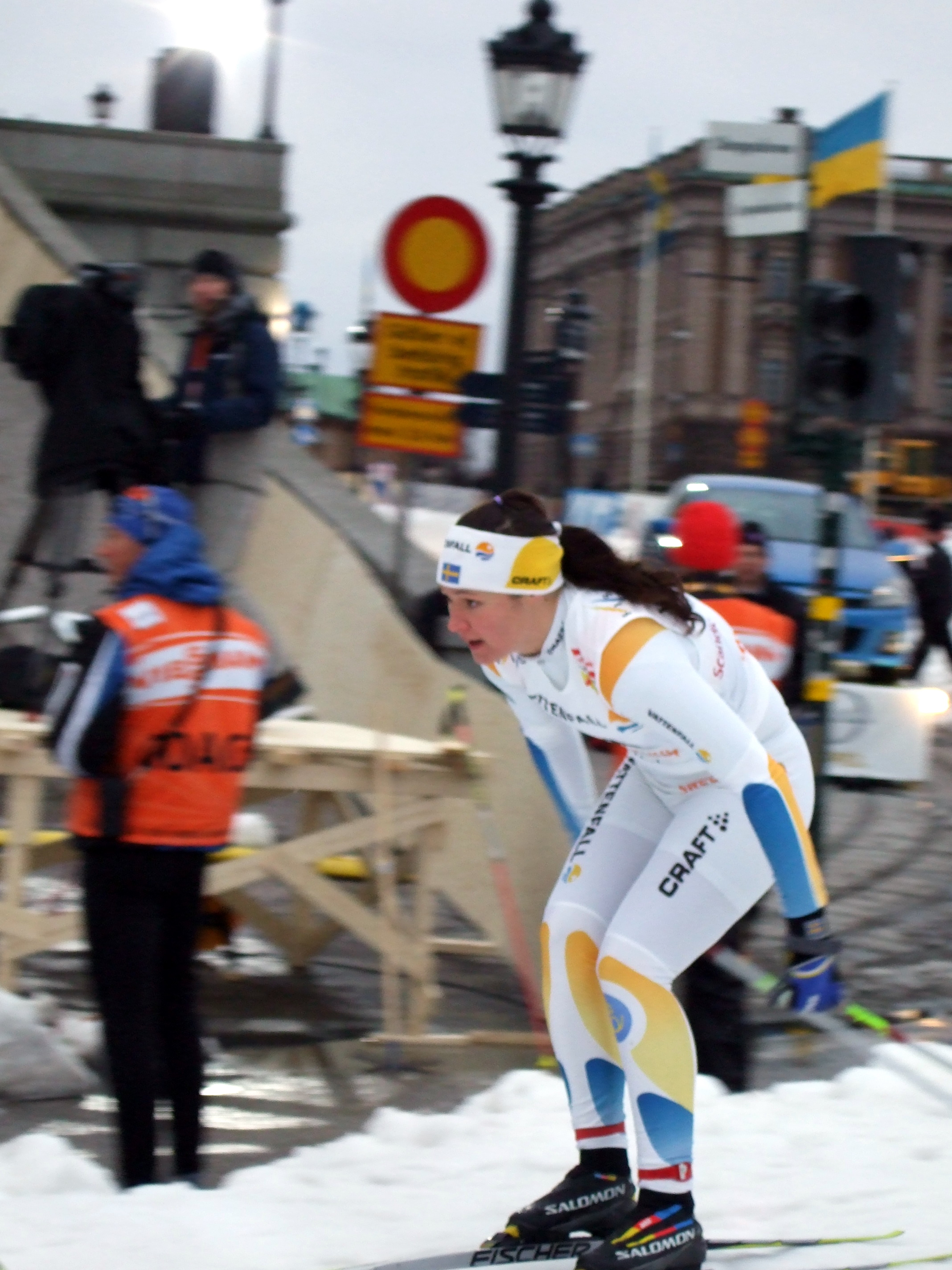 Britta Norgren at the Royal Castle World Cup sprint in Stockholm, Sweden